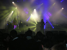 Viva Voce at Transmusicalles, France 2006